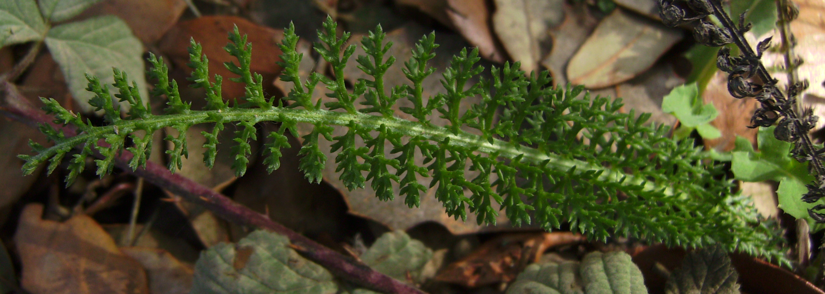 Young leaf of Achillea millefolium, Castelltallat, Catalonia